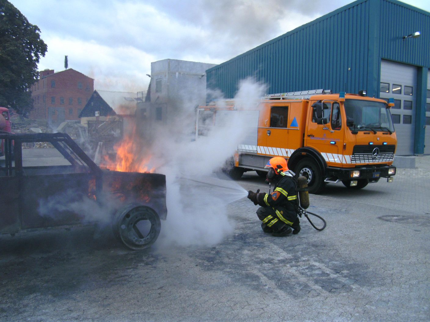 Author is User:Skibden. Picture shows a DEMA firefighter during training.